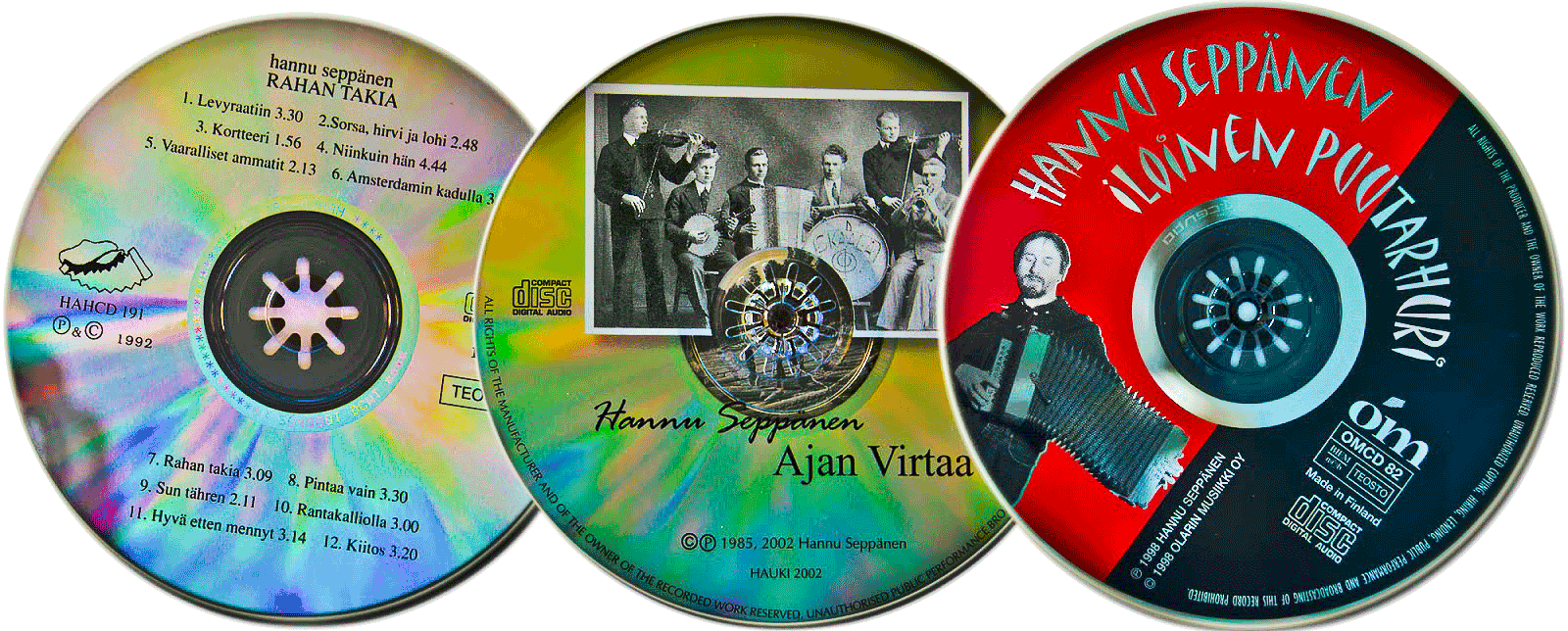 Photo of three CD-disks of Finnish Country Music by Hannu Seppänen